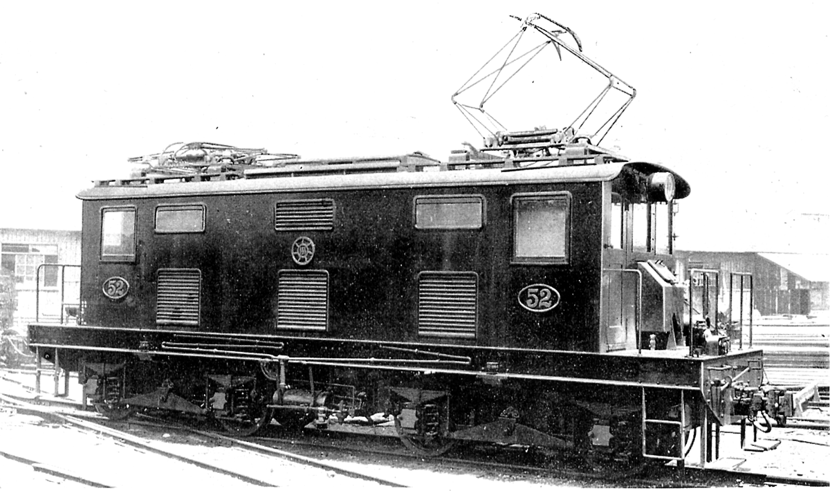 Toyokawa Railway Type DEKI 52 Electric Locomotive No.52